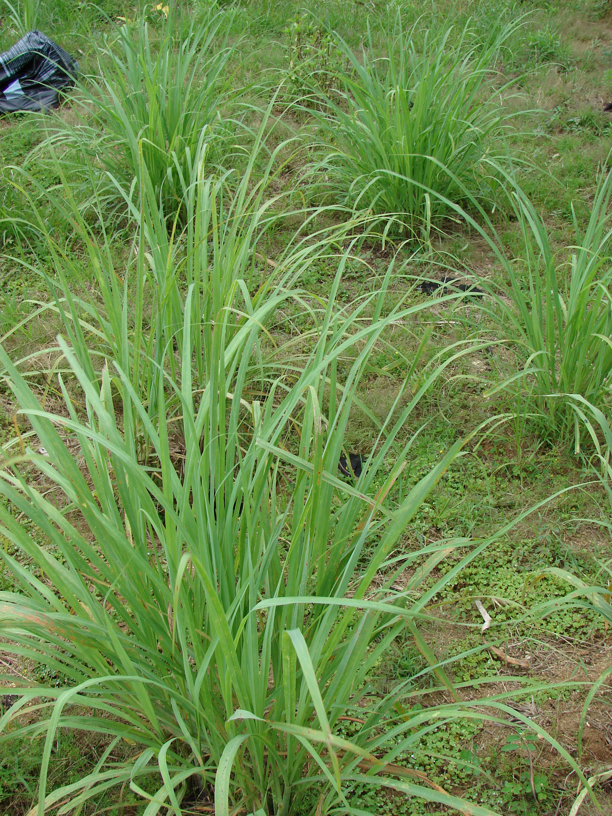 Cymbopogon citratus (habit). Location: Midway Atoll, Community Garden Sand Island